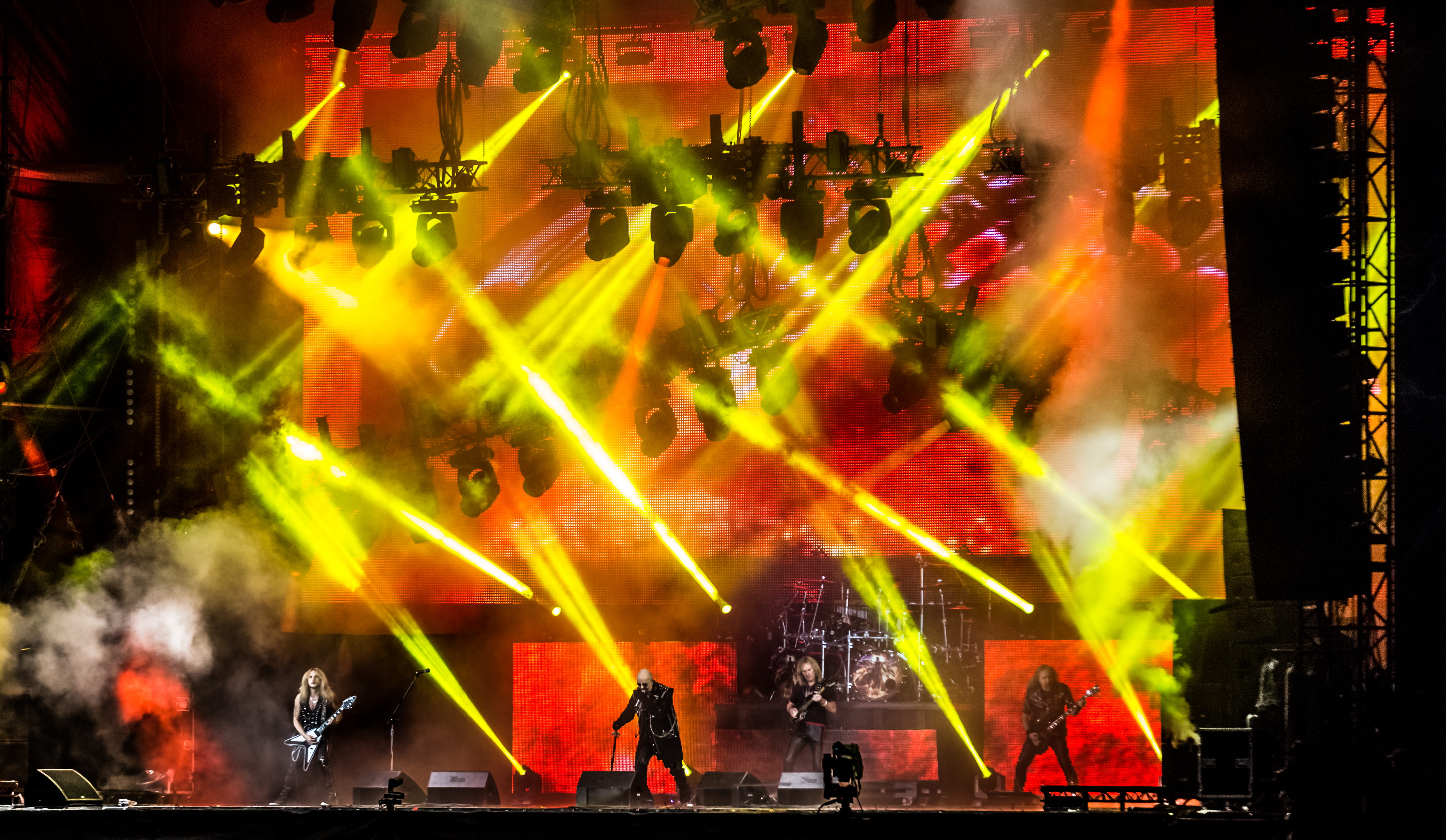 Judas Priest - Wacken Open Air 2015